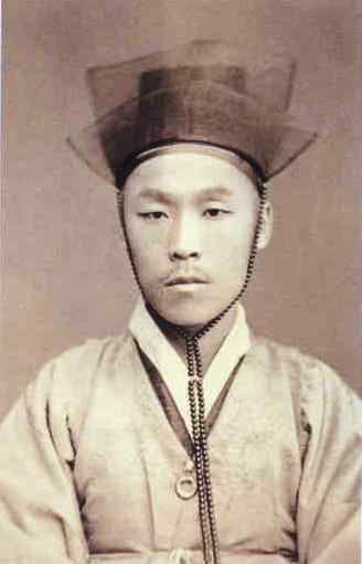 Kim Ok-gyun [김옥균; 金玉均] (1851–1894) was a reformist (Gaehwapa, 개화파) activist during the Joseon Dynasty of Korea. He served under the national civil service under King Gojong, and actively participated to advance Western ideas and sciences in Korea.